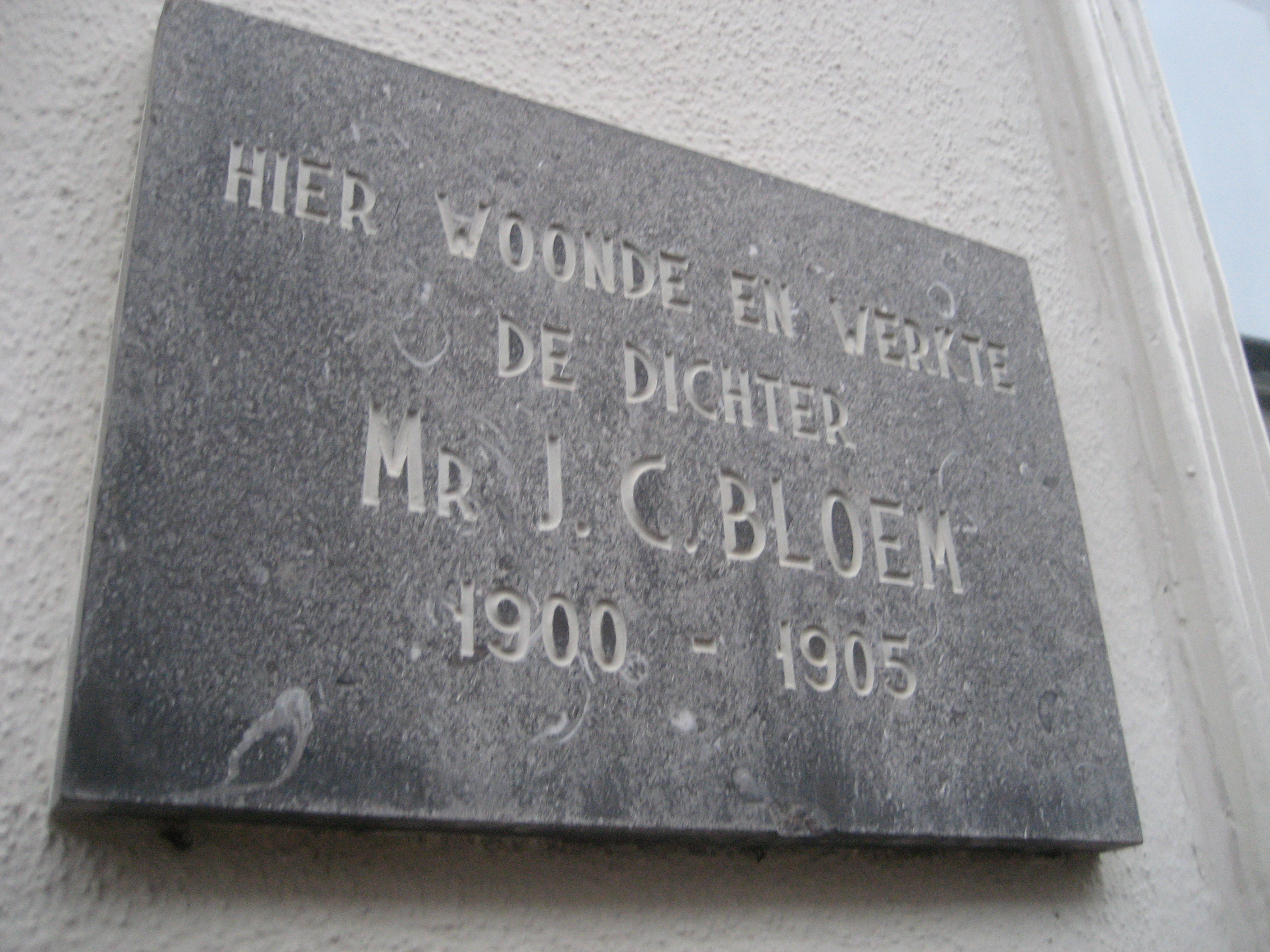 Commemorative plaque, Langebrug, Leiden (The Netherlands). The later poet J.C. Bloem lived in this house during his youth, from 1900 to 1905